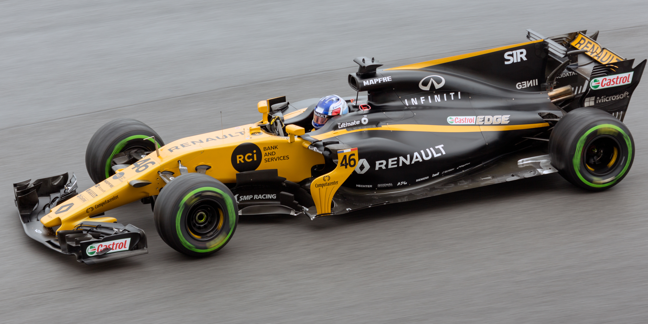 Formula One 2017 Rd.15 Malaysian GP: Sergey Sirotkin (Renault)